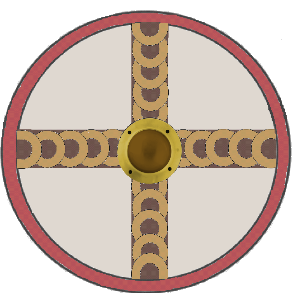 Shield pattern o.t. Ascarii seniores is one of the auxilia palatina units listed in the Magister Peditum infantry roster, Notitia Dignitatum, 5th century (Bodleian Manuscript)